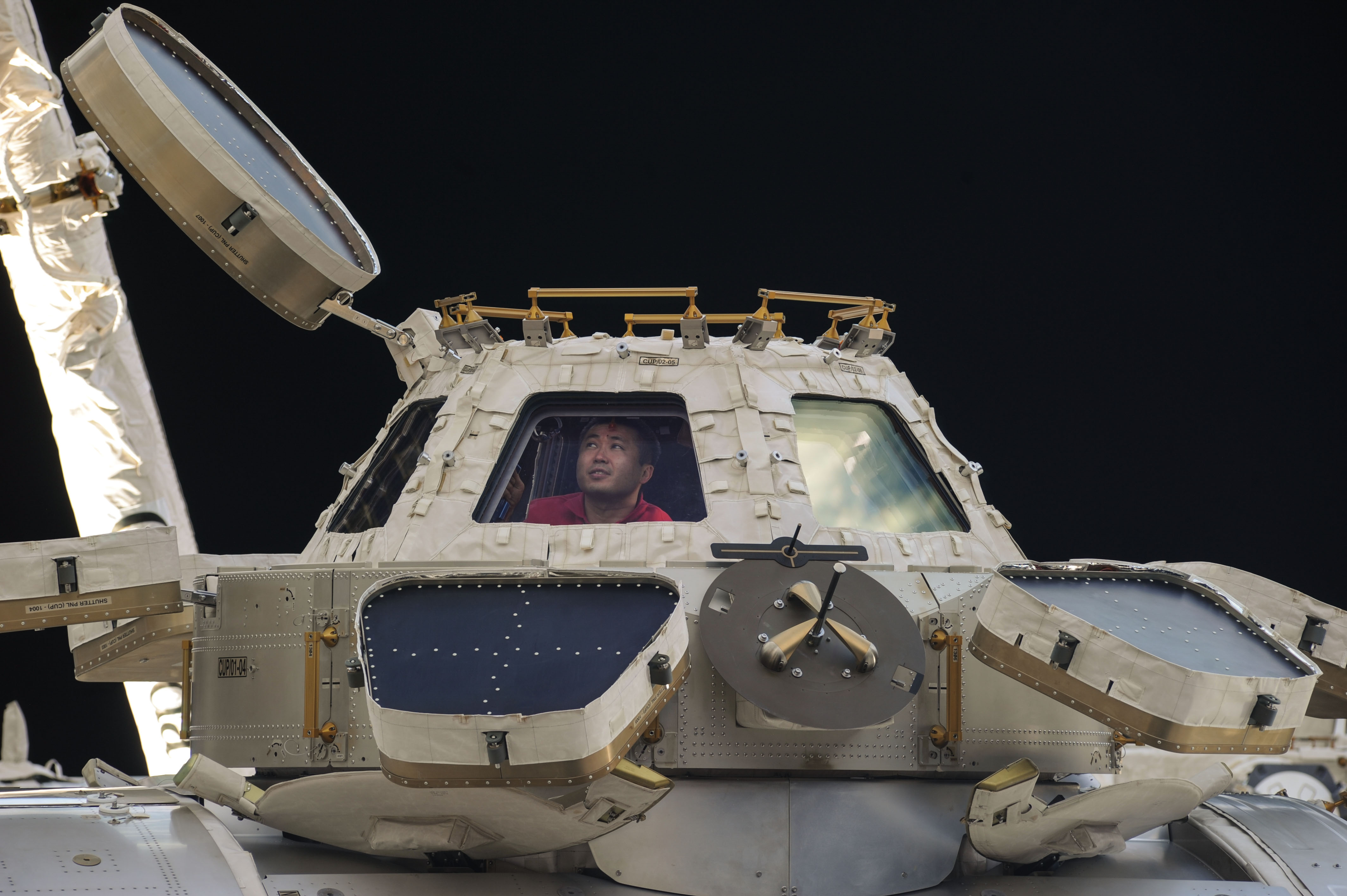 Expedition 39 Commander Koichi Wakata of the Japan Aerospace Exploration Agency (JAXA) peers out of one of the windows of the Cupola on the Earth-orbiting International Space Station. A crewmate inside Pirs docking module recorded the image.